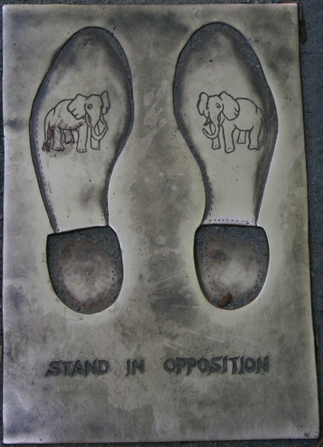 Stand in Opposition (2001), bronze, set into the ground in front of Old City Hall, Boston. This public art complements an earlier bronze sculpture of a donkey. It is positioned immediately in front of the Democratic Donkey and gives the impression of the the donkey staring upon these footprints with the Republican elephants.[1][2] Date: July 2005